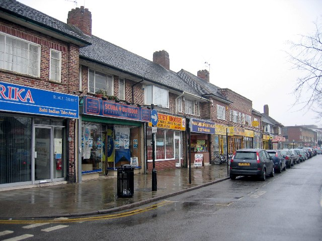 Shirley Shops. One of the many rows of shops that line the Stratford Road as it passes through Shirley. These are next to the junction with Union Road.